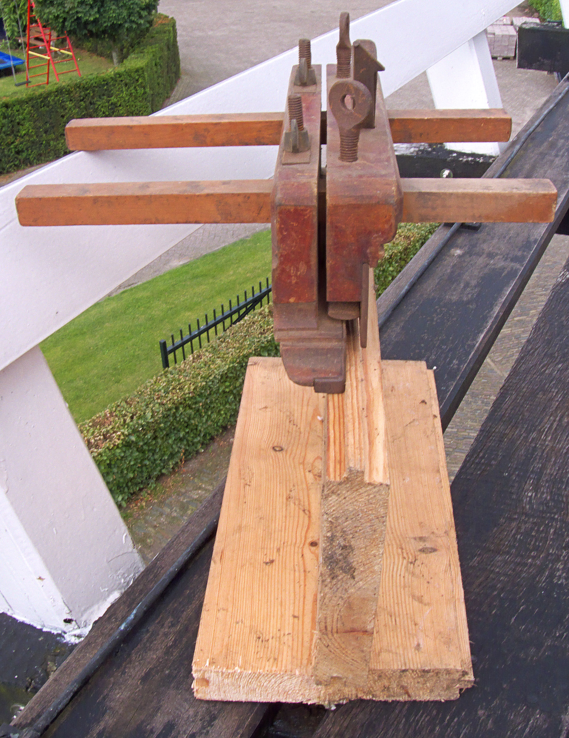 Tongue and groove plane